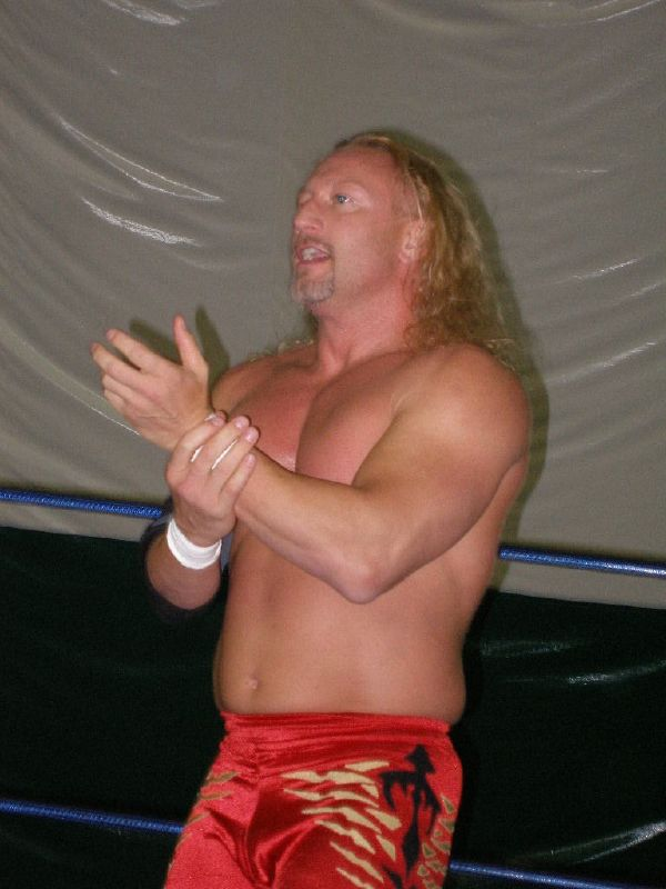 Professional wrestler Jerry Lynn at a WCWA show in August 2007.